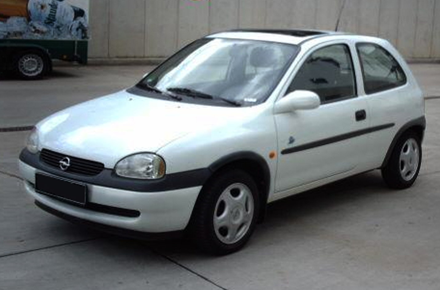 a 3 doors corsa